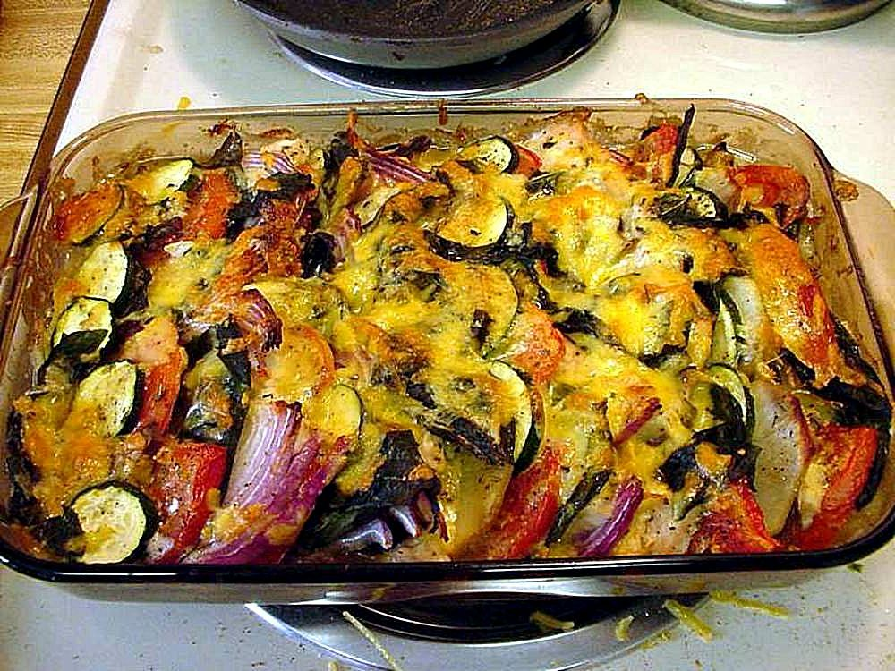 Image title: Veggie casserole Image from Public domain images website